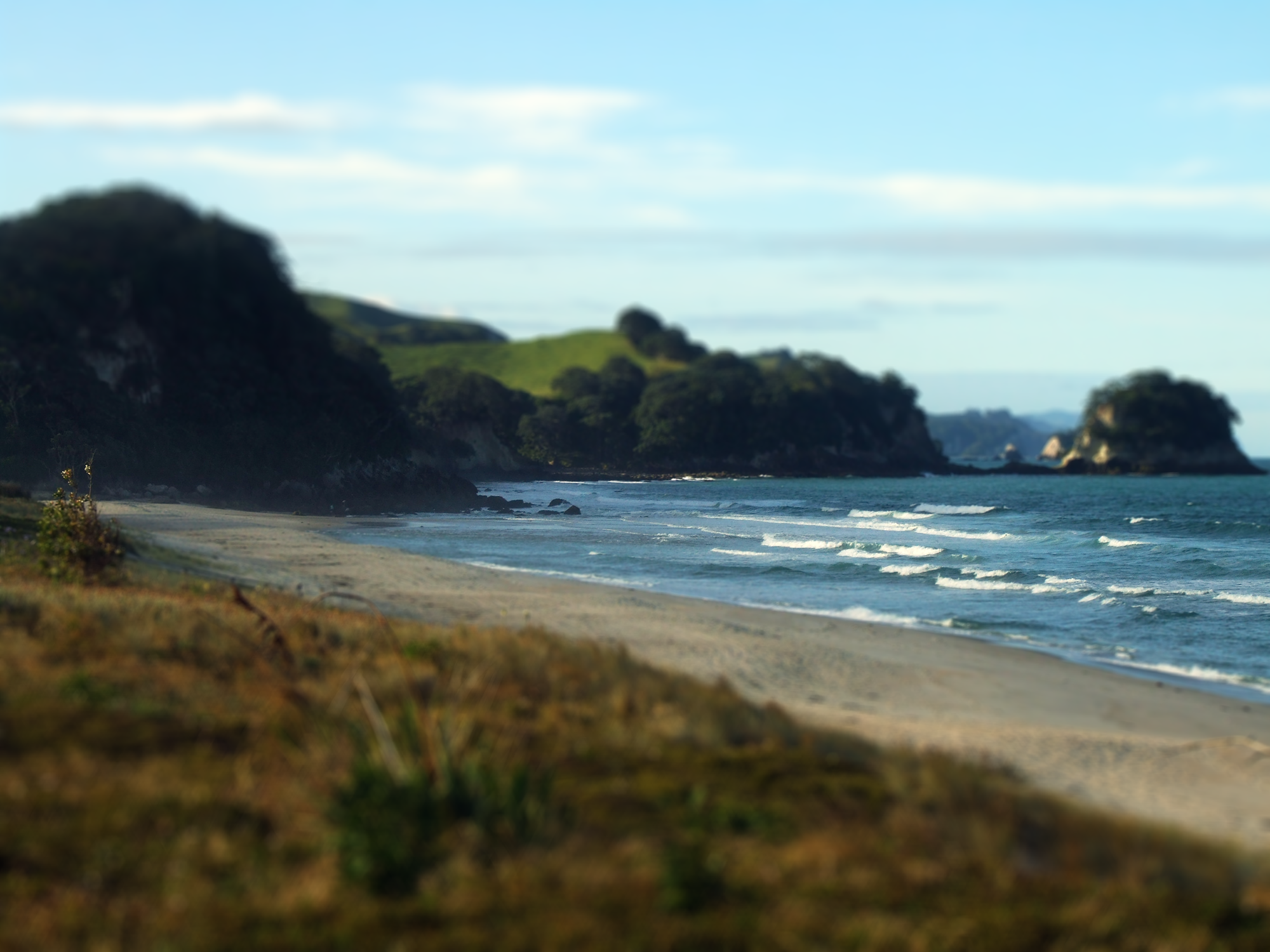 Whiritoa beach, facing north.